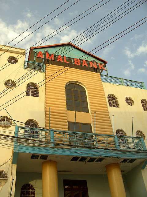 An Amal Bank branch in Bosaso, the commercial capital of the autonomous Puntland region in northeastern Somalia.